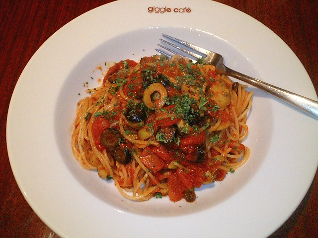 Spaghettini alla puttanesca.